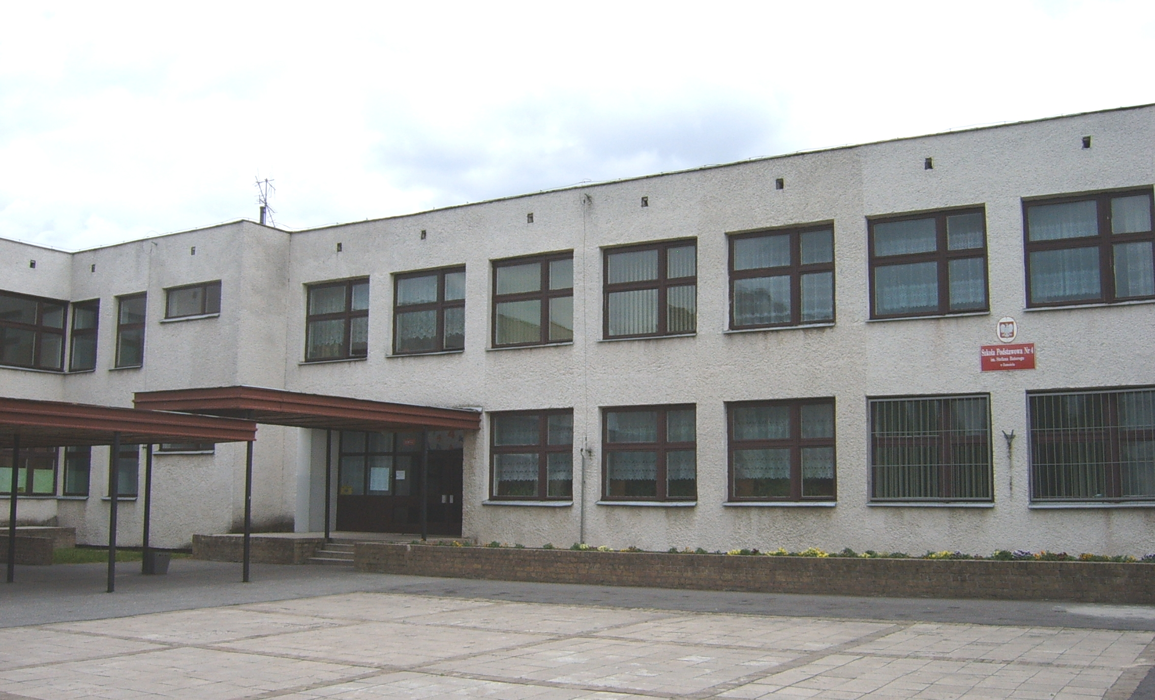 Primary School No.4 in Zamość